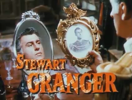 Stewart Granger in The Prisoner of Zenda, by Richard Thorpe (1952)